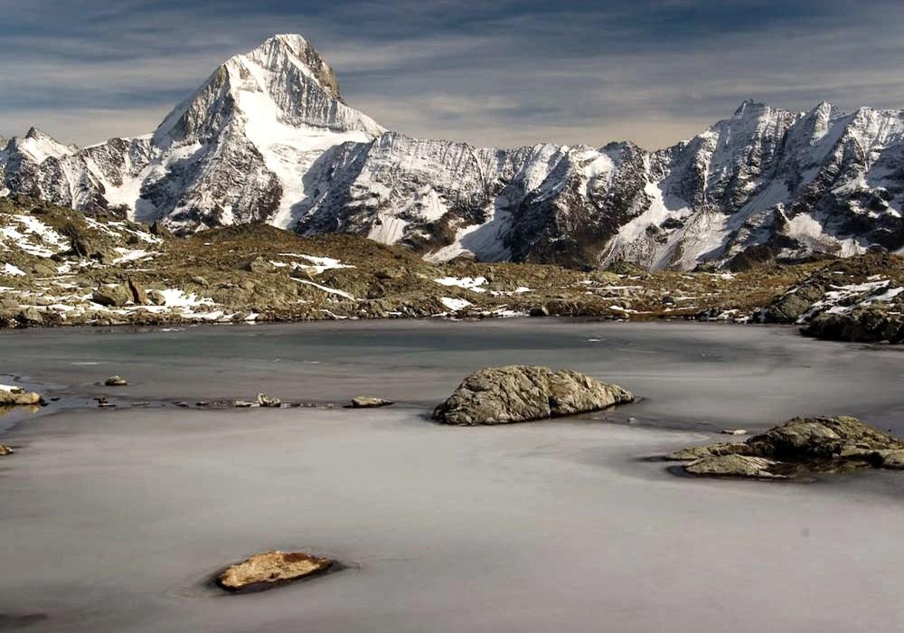 Lötschenpass (2700 m) and mountains of Lötschental